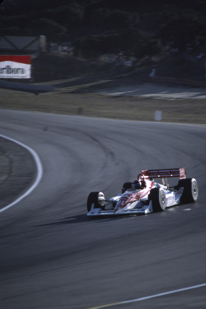 Laguna Seca 1991. Scanned from Kodachrome 64 slide. #21 Leader Card Racing - Didier Theys